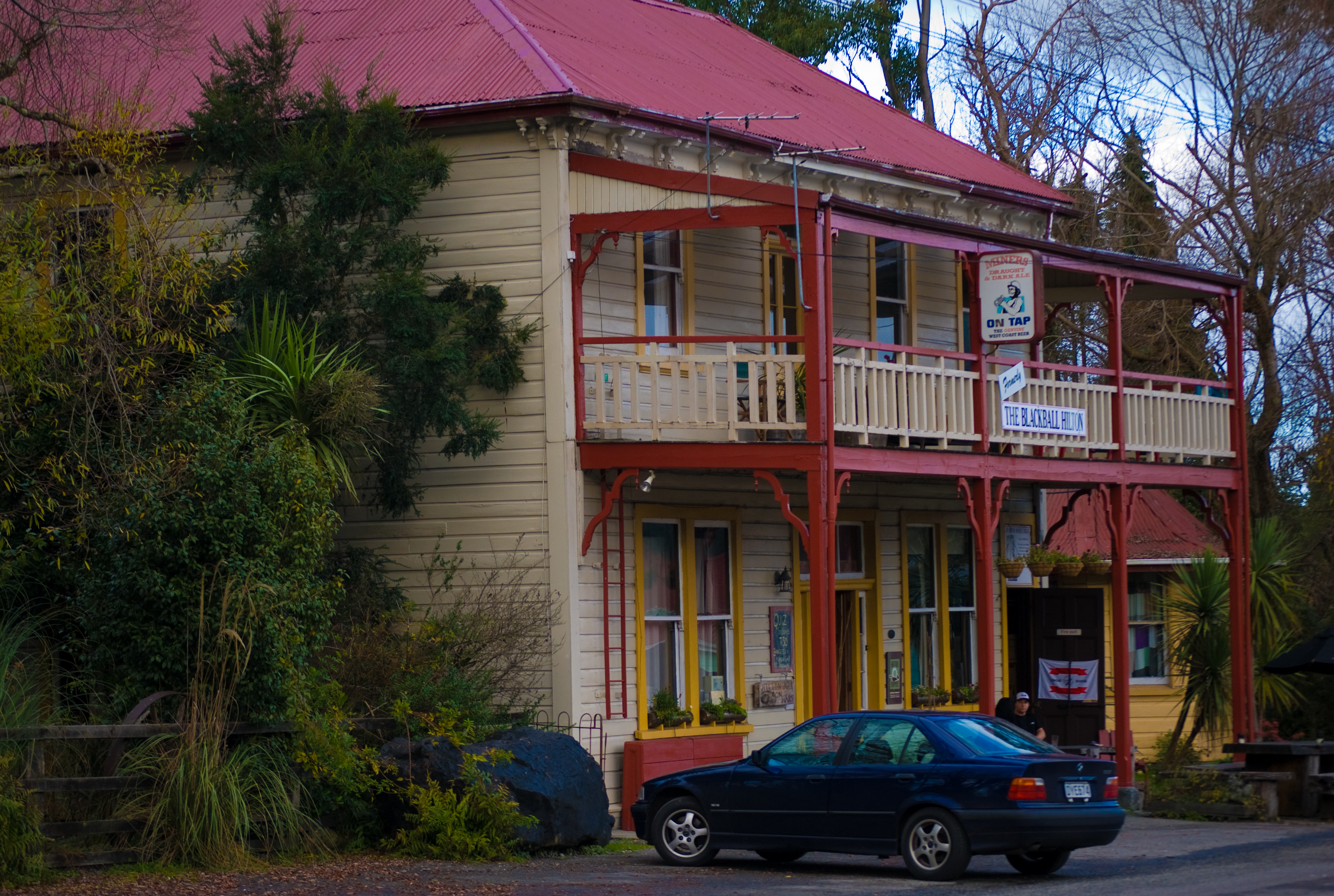 The Blackball Hilton, West Coast, New Zealand. The hotel is not part of the international Hilton Chain. New Zealand Historic Places Trust Register number: 7115.